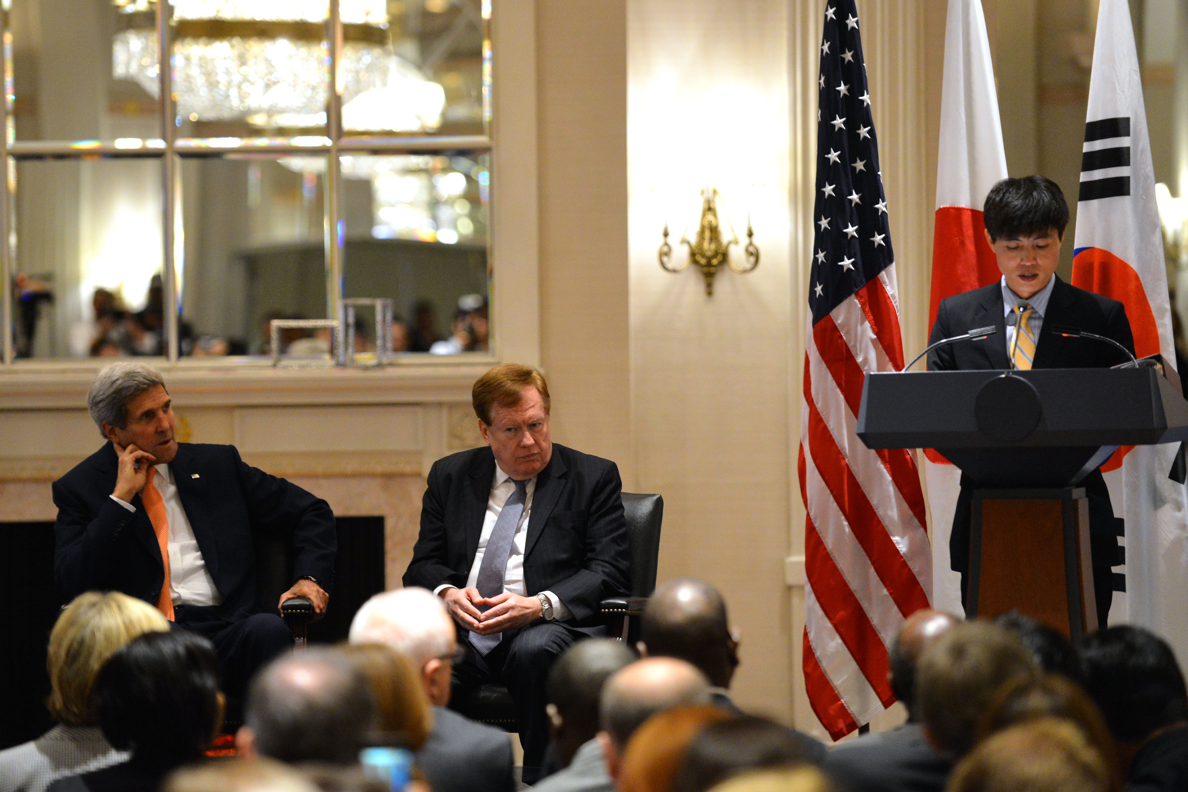 U.S. Secretary of State John Kerry listens as Shin Dong-hyuk, a survivor of North Korean human rights abuses, speaks at an event highlighting human rights abuses in the Democratic People's Republic of Korea in New York City on September 23, 2014. The Secretary is participating in events in conjunction with the 69th Session of the United Nations General Assembly. Korean Translation State Department photo